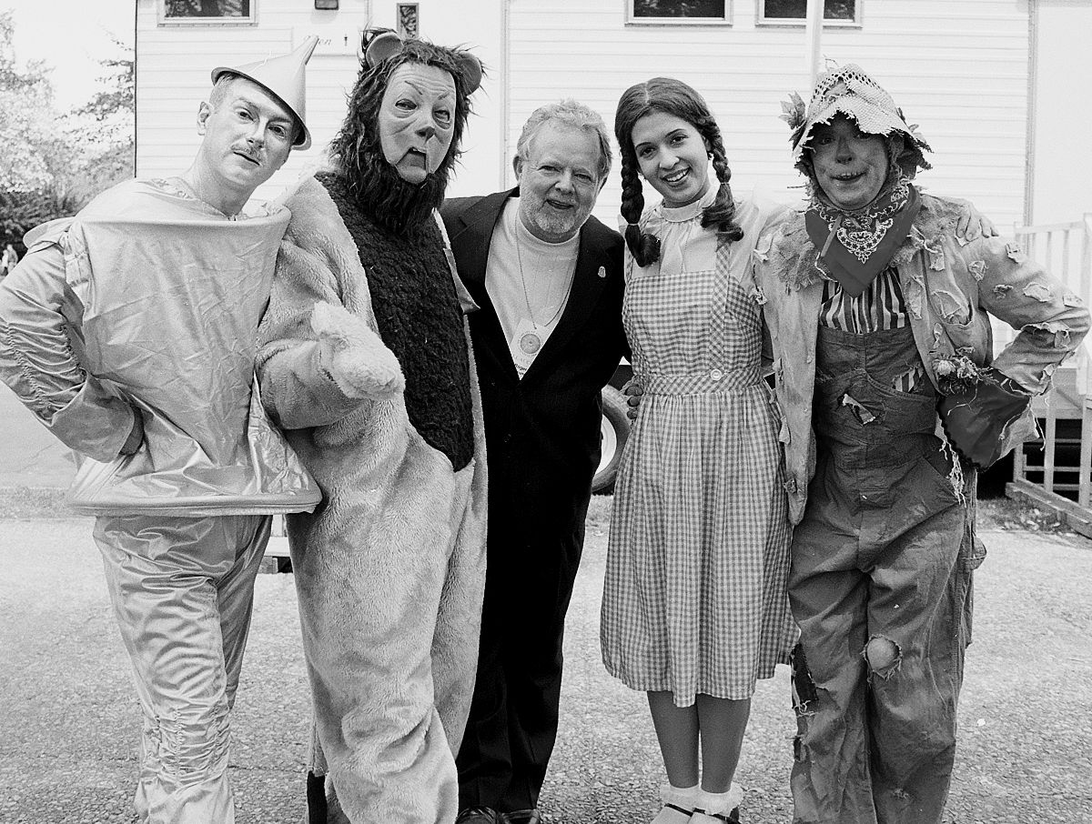 From Library of Congress 200th anniv. 2000